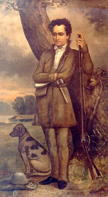 Stephen F. Austin painted in Mexico City in 1833. Watercolor on ivory. Information from Gregg Cantrell's book Stephen F. Austin: Empresario of Texas, published 1999 by Yale University Press, p. 280